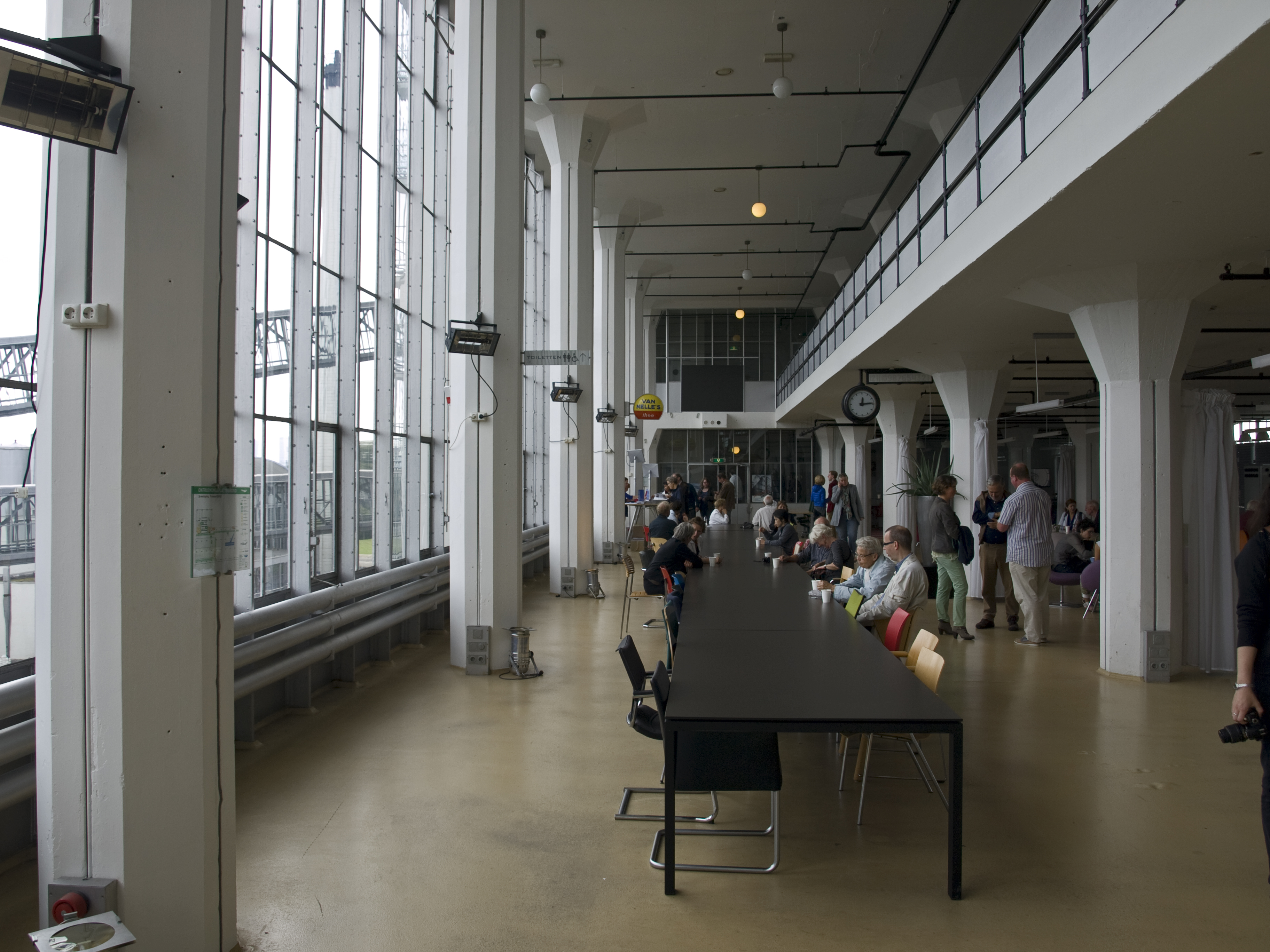 Visitors are waiting for a guided tour at the van Nelle Factory, Rotterdam, at the European Monument Day 14 September 2014. At the background, new arrivals sign up for the guided tours at the ticket booth. The van Nelle Factory is only open for visitors during the Monument Day.